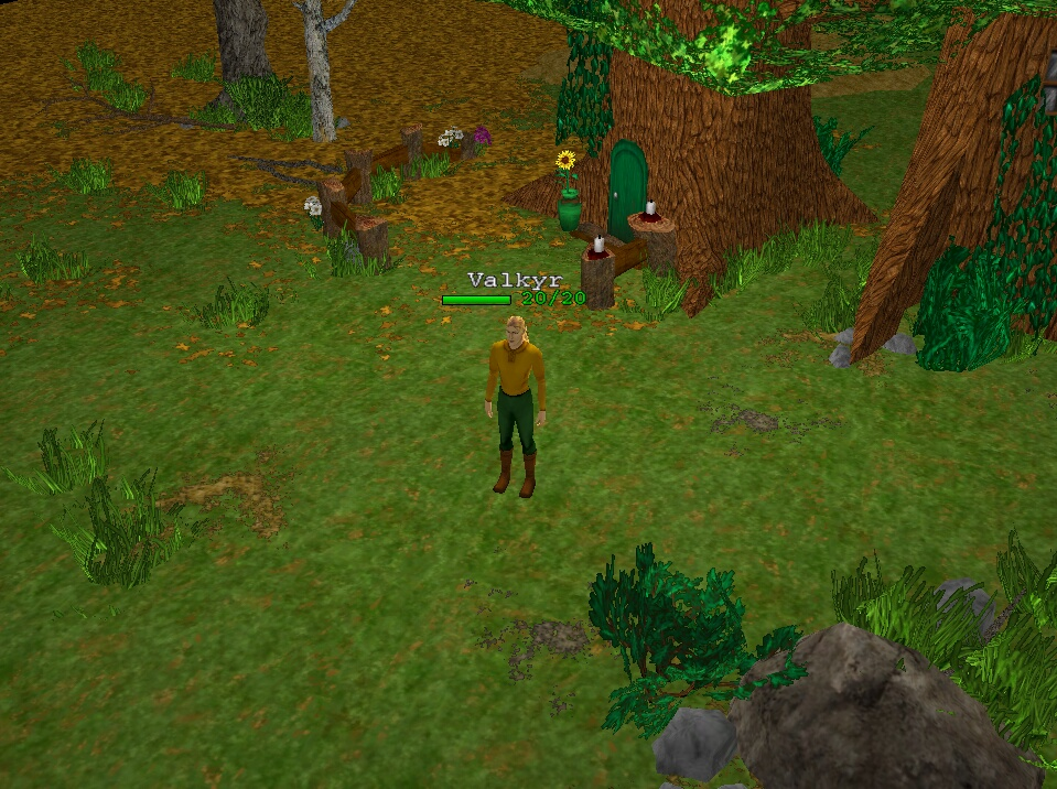 Screenshot from Eternal Lands game